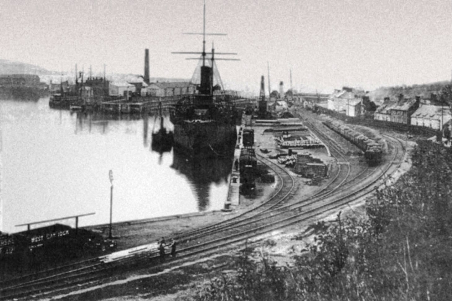 HMS Aurora, berthed in Milford Docks prior to be being broken up, 1907.